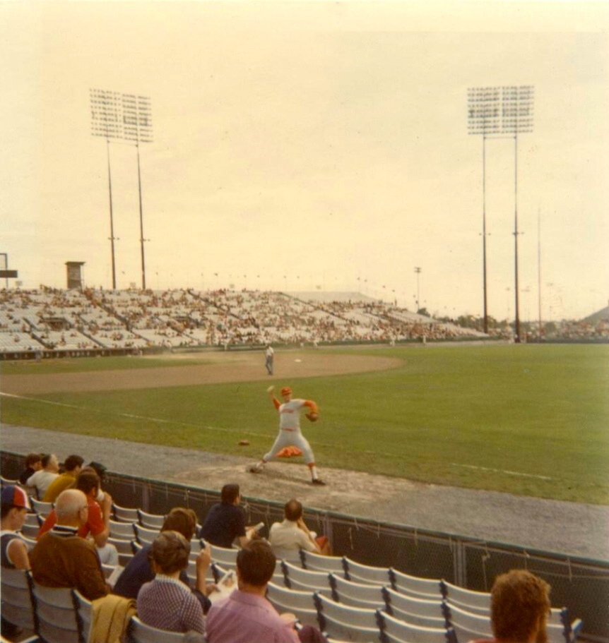 Ken Forsch of The Houston Astros warms up before game 1 of a doubleheader between The Montreal Expos and The Astros on July 30,1971.